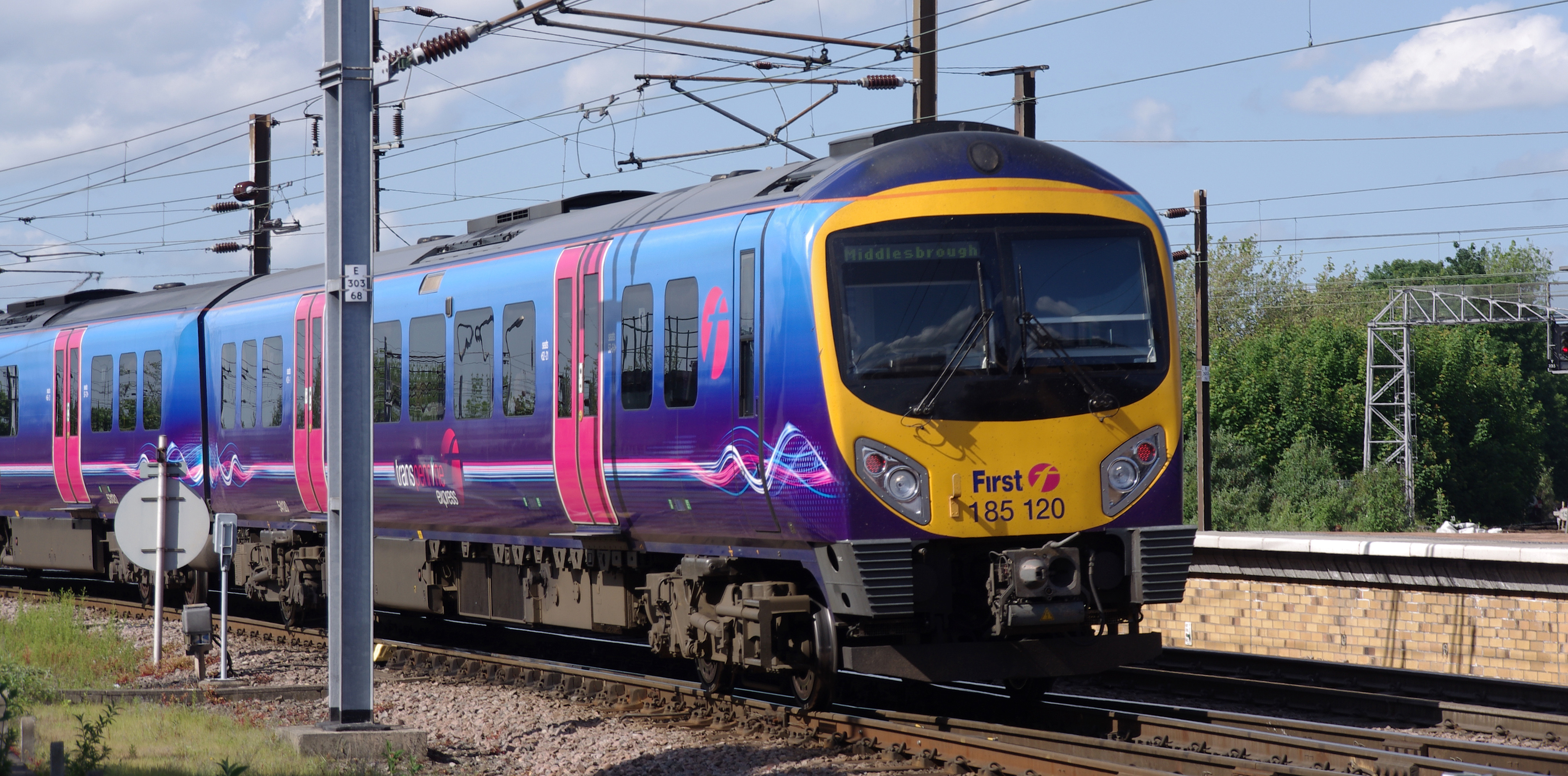 First TransPennins Express class 185 "Pennine" DMU 185120 departs York with a service for Middlesbrough.